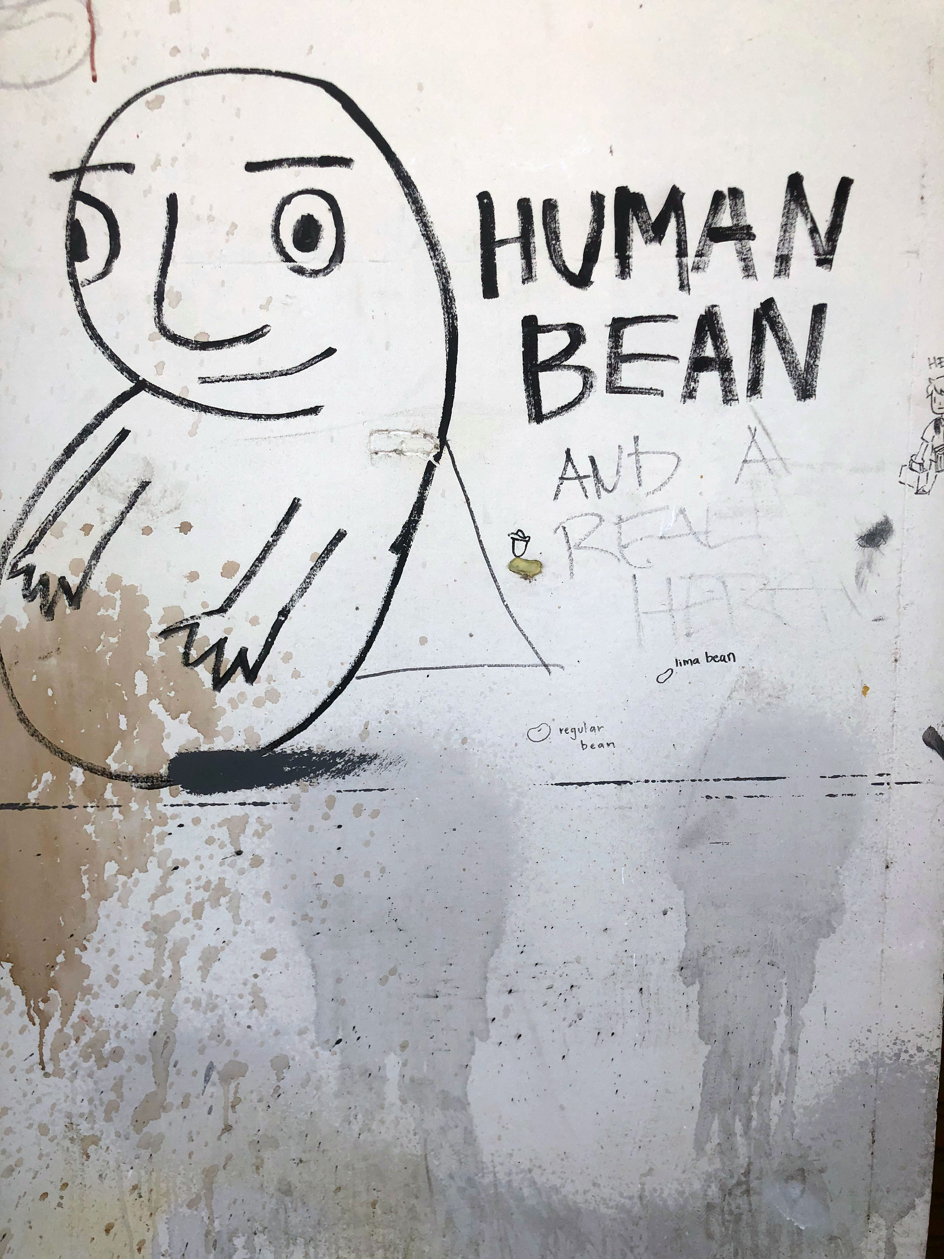 Graffiti on the exterior of the Art Department Building, Building 13, at Cal Poly Pomona. It reads "Human Bean and a real hero"